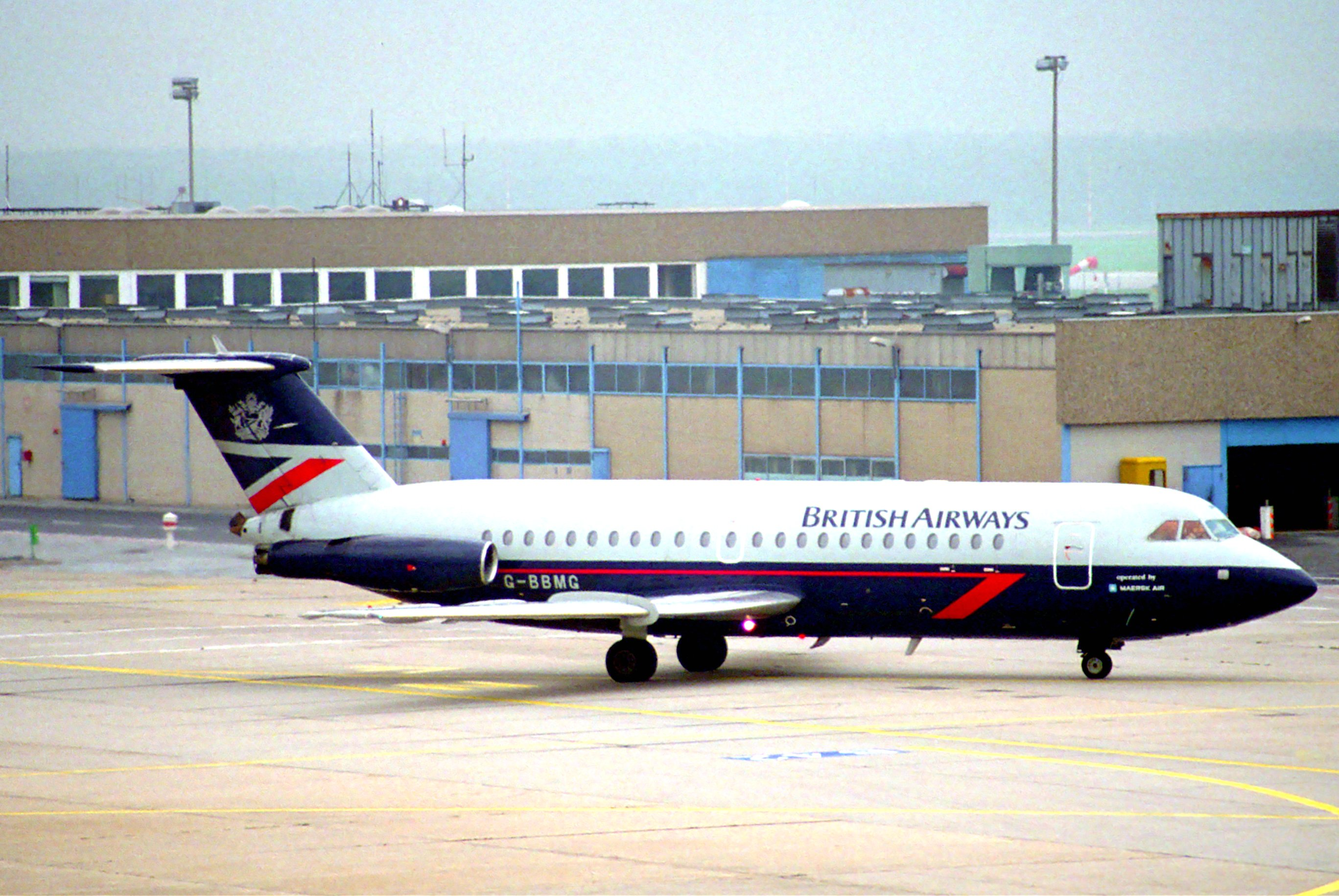 First flight: May 1, 1968, broken up in 2008 in South Africa...